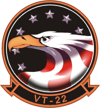 Training Squadron 22 insignia